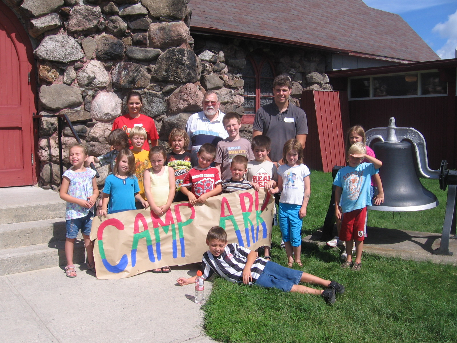 Camp ARK group photo